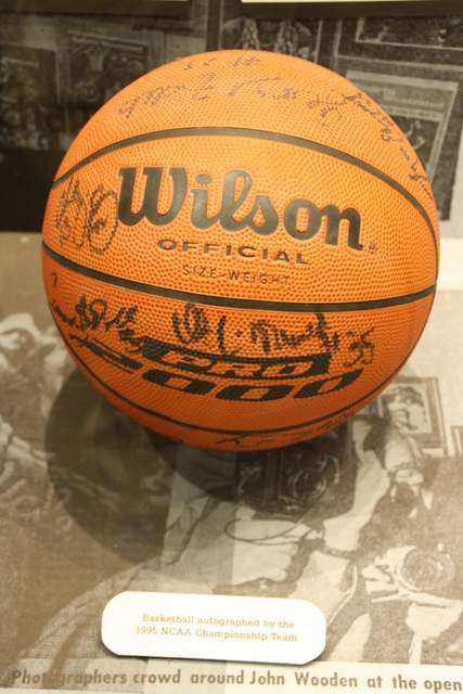 Basketball autographed by UCLA's 1995 NCAA Championship team at the UCLA Athletics Hall of Fame